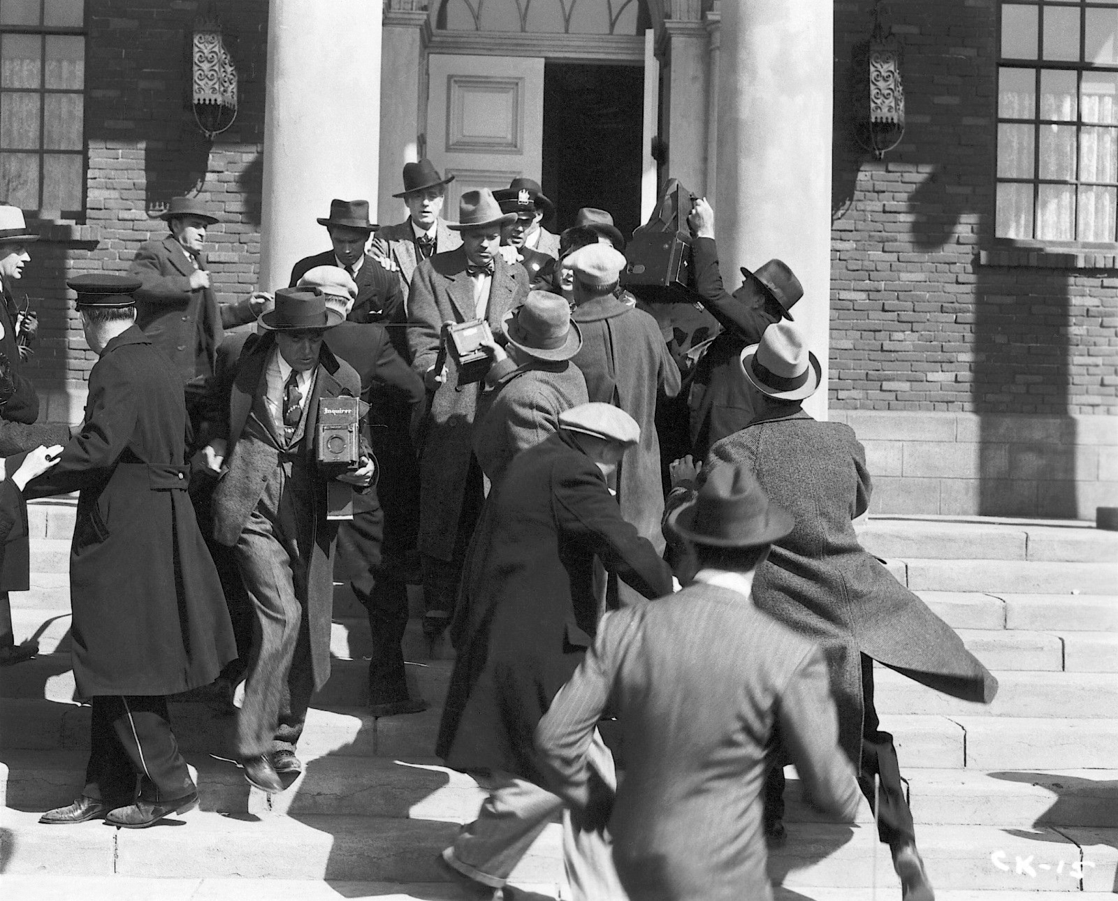 Promotional still for the 1941 film, Citizen Kane Image is marked CK-15 at lower right